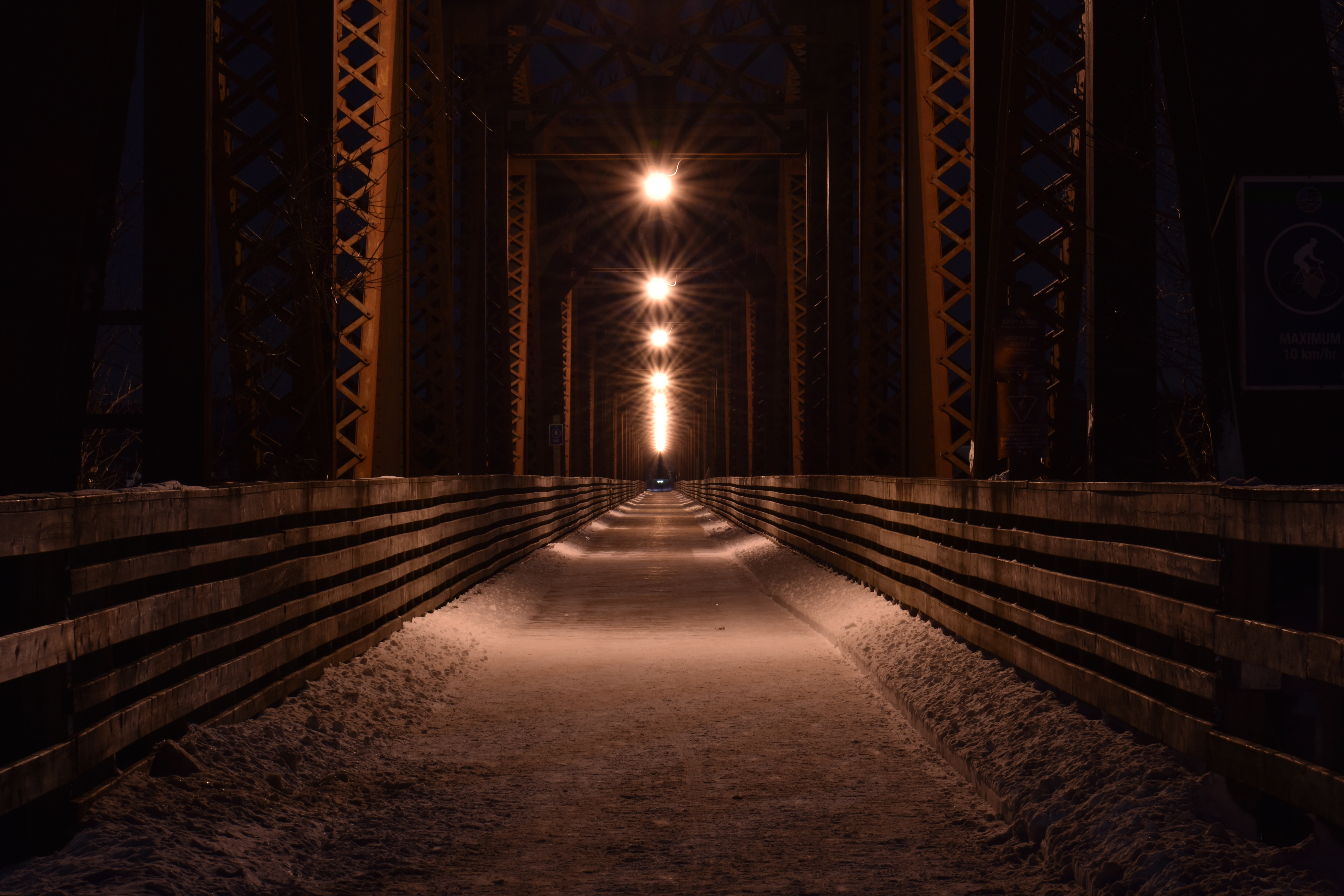 The Bill Thorpe Walking Bridge on a winter night.